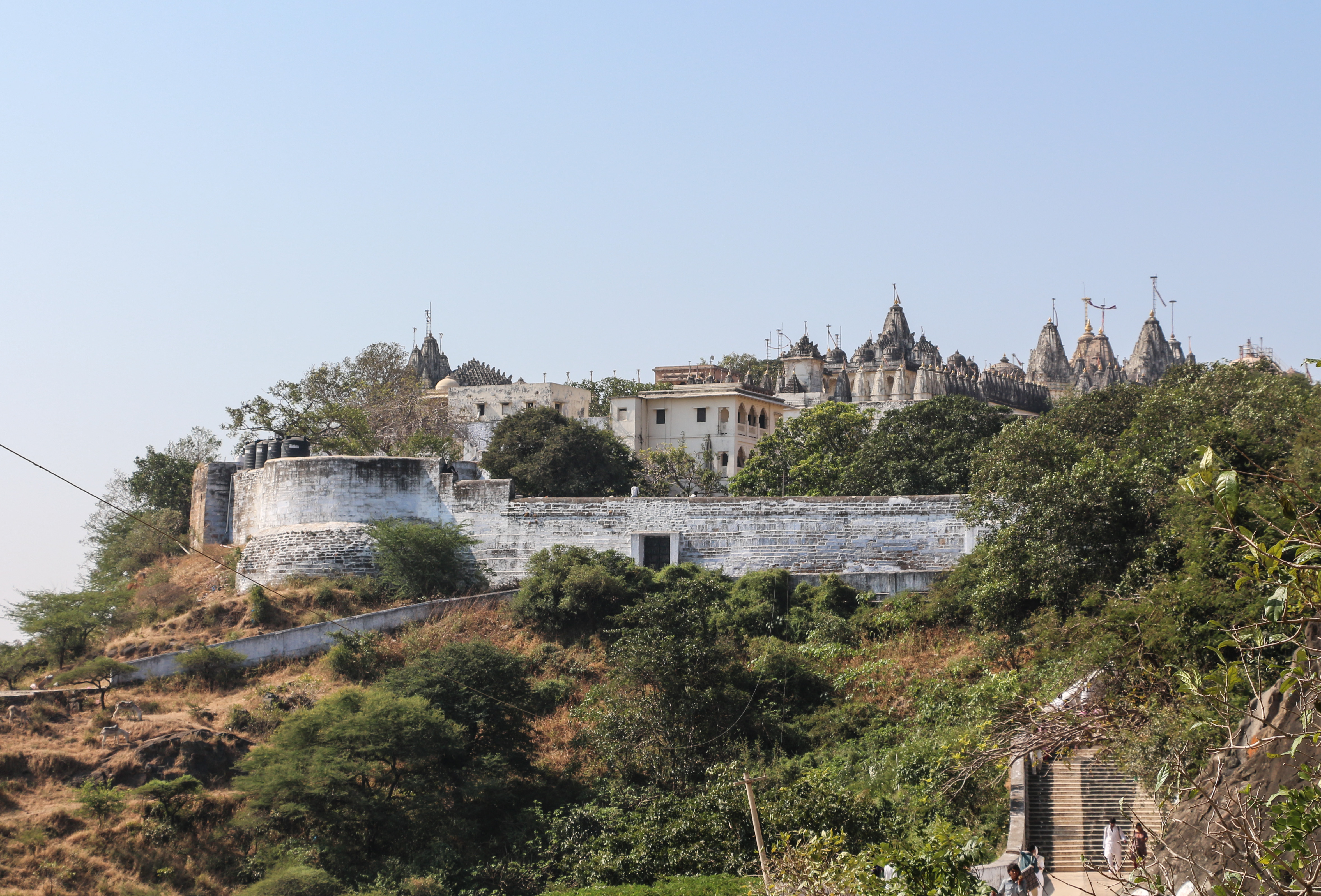 View of Palitana temples on mount Shatrunjaya, Palitana, India